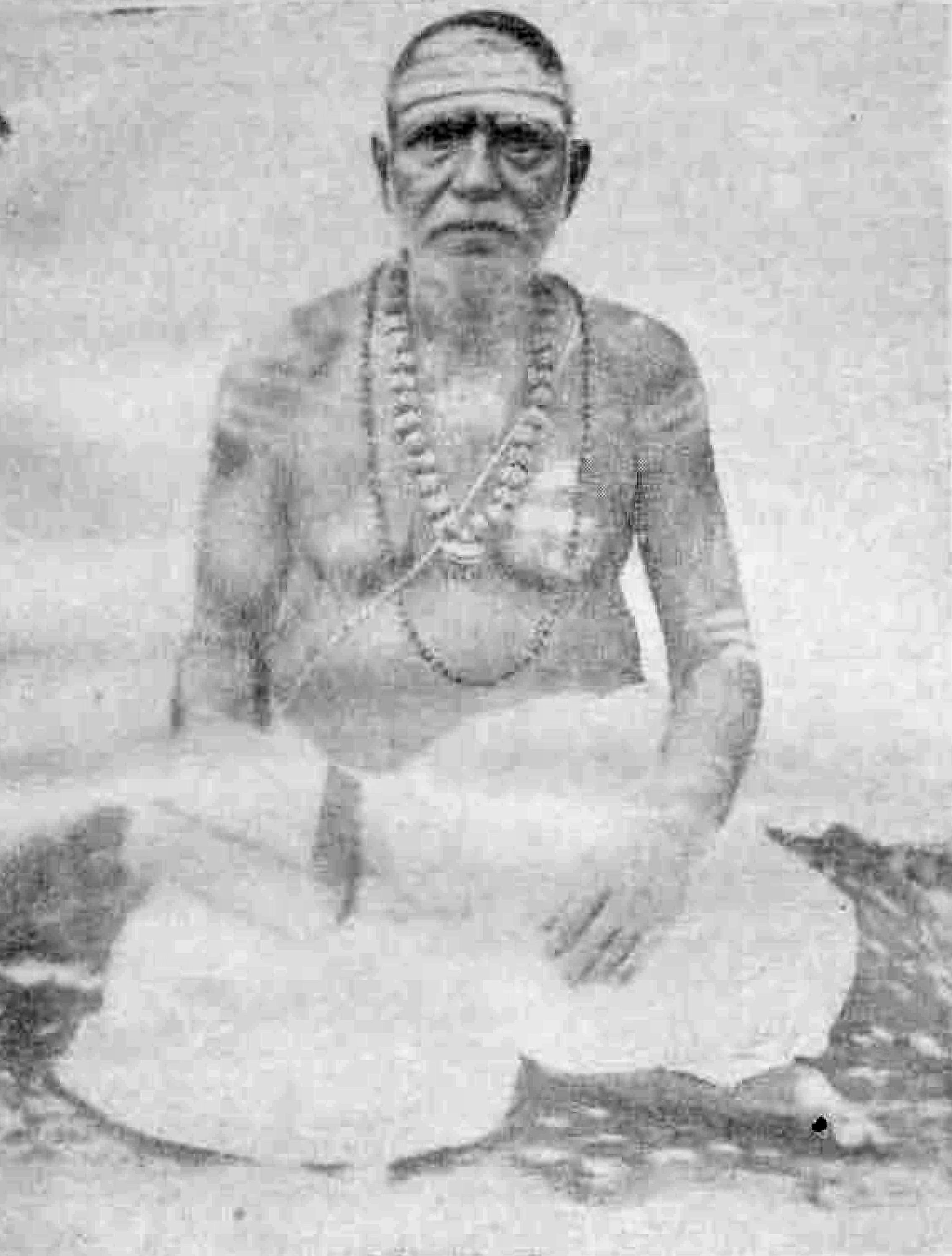 U. V. Swaminatha Iyer (1855–1942) in Saiva garb